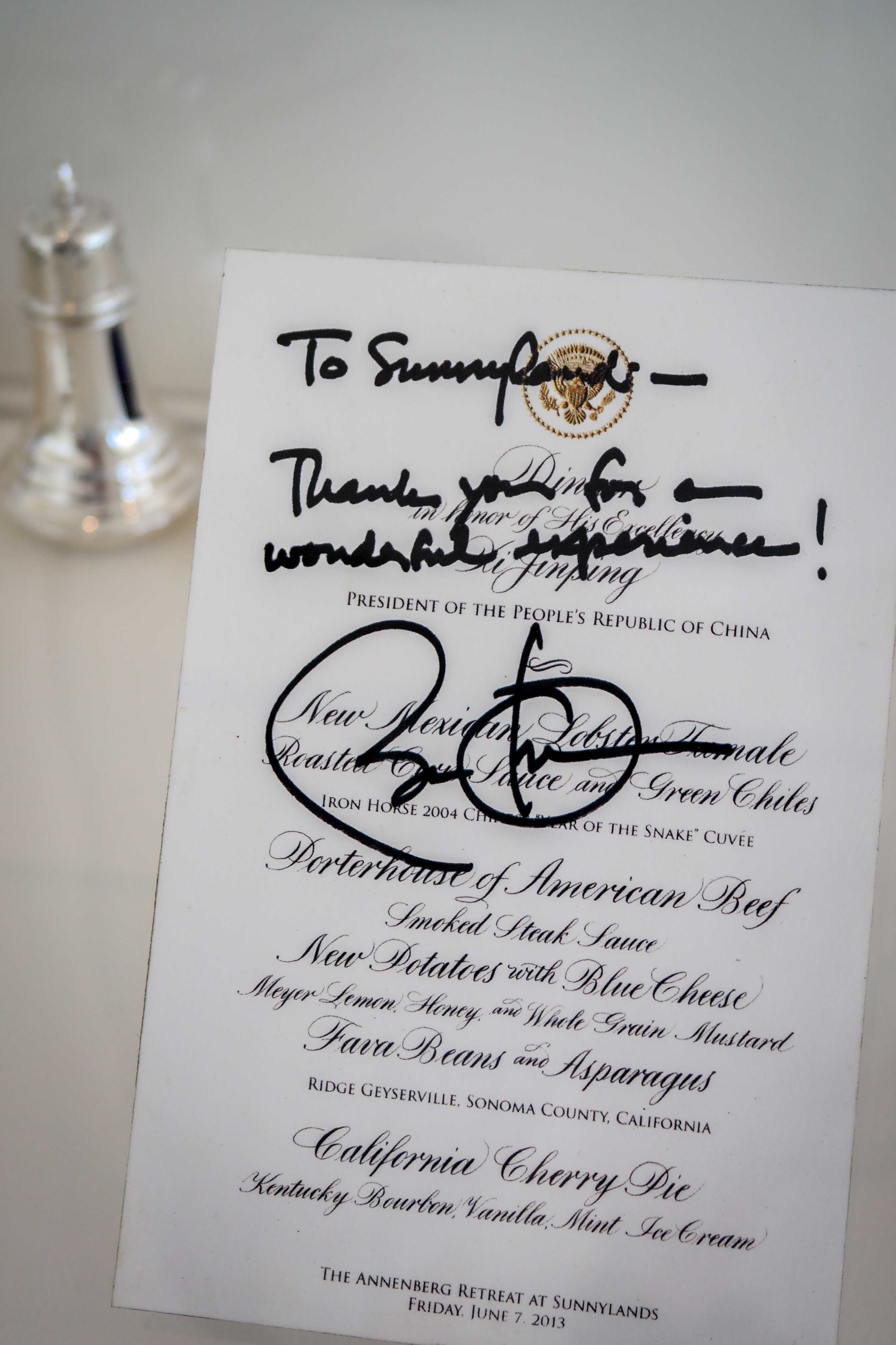 A menu signed by President Obama from a dinner hosting President Xi Jinping June 7, 2013, at the Annenberg Retreat at Sunnylands in Rancho Mirage, California